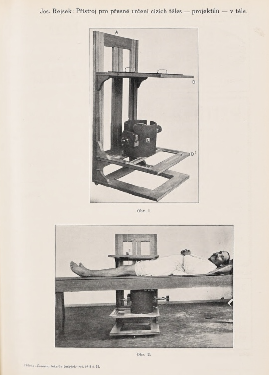 A medical instrument for an improved searching of foreign objects (mainly bullets) in human body using X-ray. Invented (and probably also photographed here) by Josef Rejsek, taxodermist at a university in Prague.